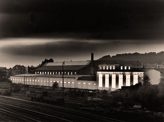 Machine shop in 1888 near Aachen Westbahnhof